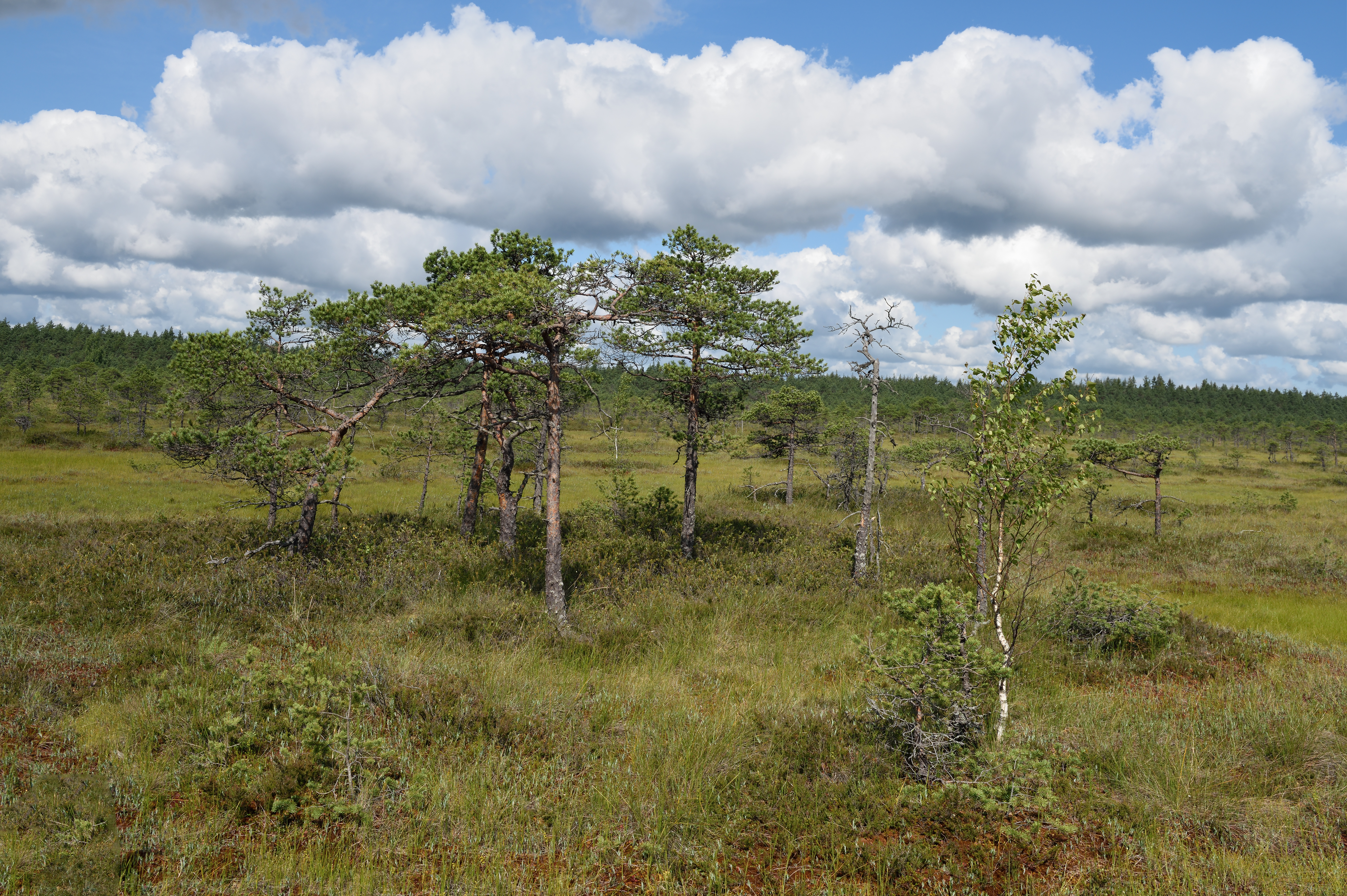 Endla Nature Reserve, Estonia.